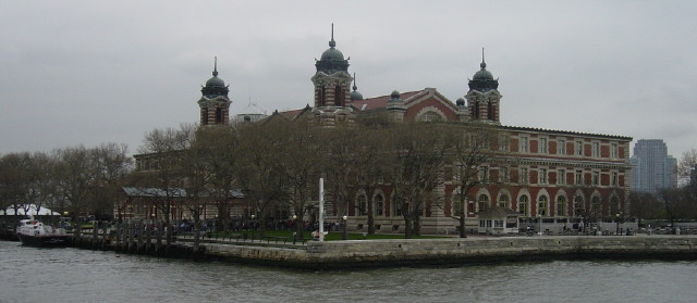 Ellis Island Immigration Museum in April 2004.